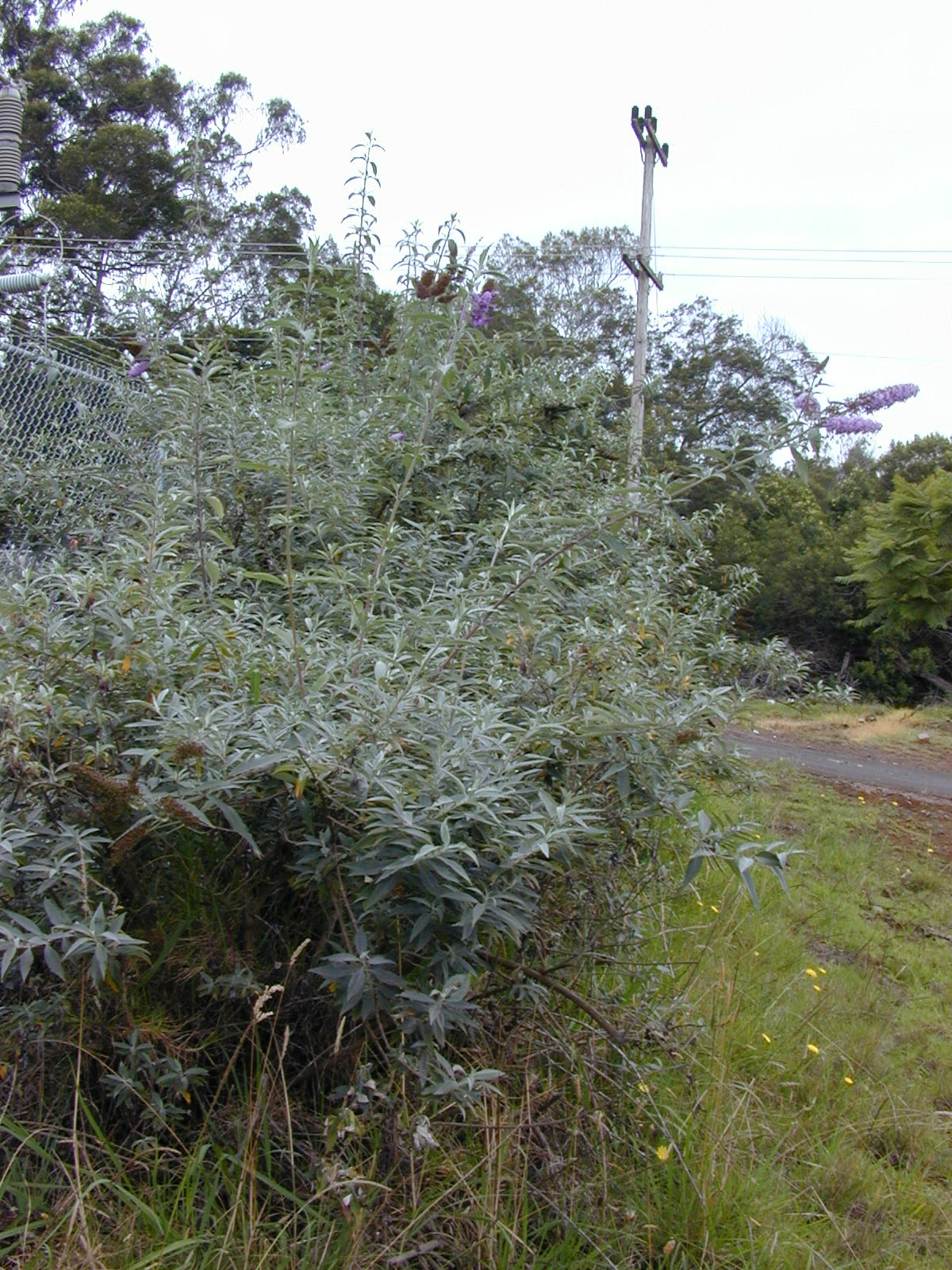 Buddleja davidii (habit). Location: Maui, Kula